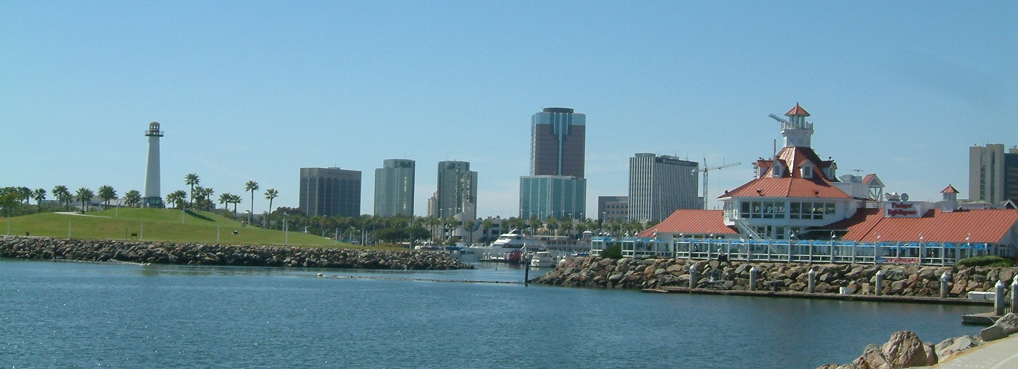 Long Beach, California, United-States.